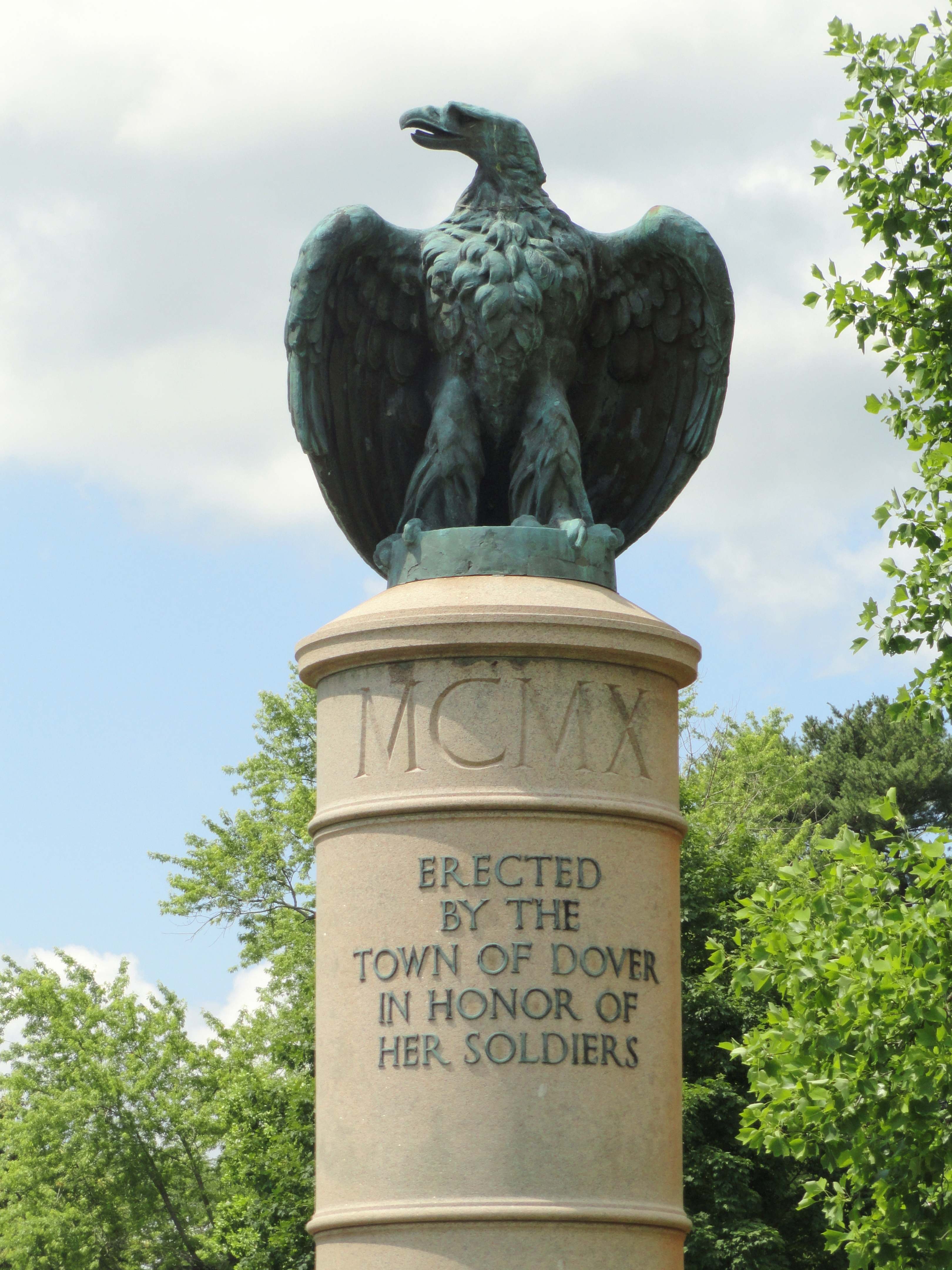 Soldiers' monument, Dover, Massachusetts, USA. First dedicated on June 18, 1910; new memorials added since. for historical information.